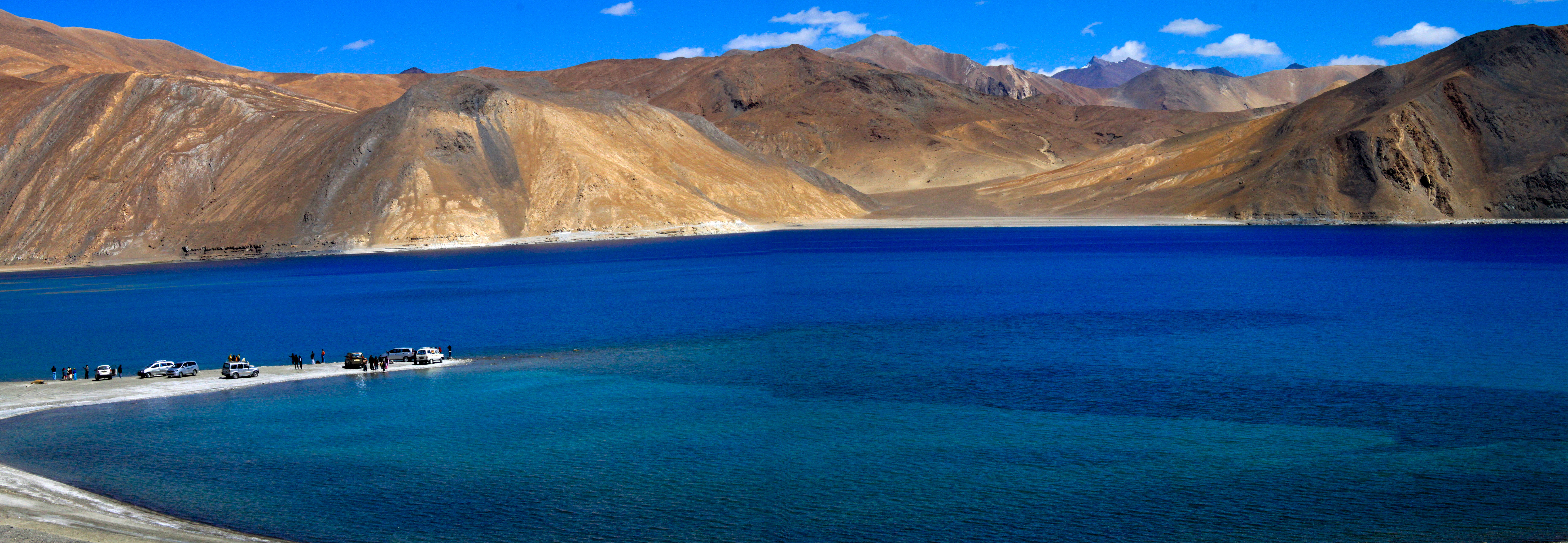 Pangong Tso